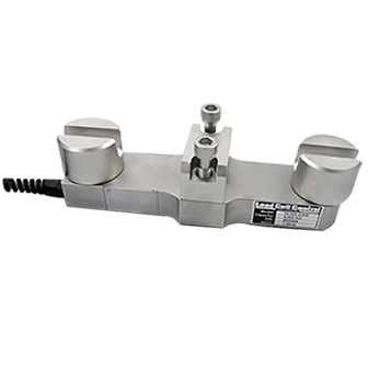 DLWS load clamp-on load cell for cranes and hoists allows a load to be monitored to prevent overload